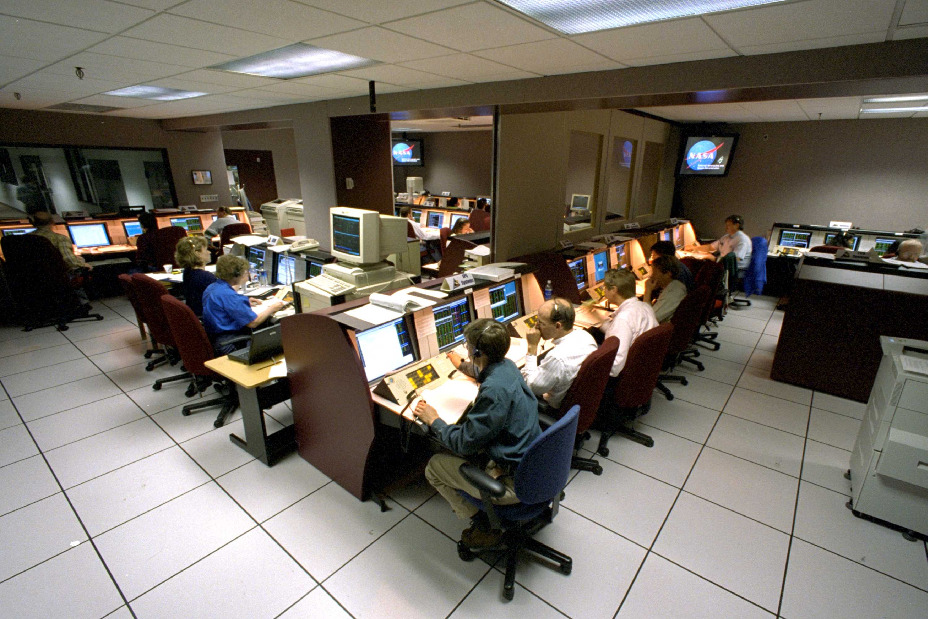 As Hubble’s third repair mission unwinds, ground controllers send commands and instructions to the telescope while monitoring data from the observatory to check that it continues to function correctly. This picture, taken in 1999, shows command and control operations at the Space Telescope Operations Center at NASA’s Goddard Space Flight Center in Greenbelt, Md.